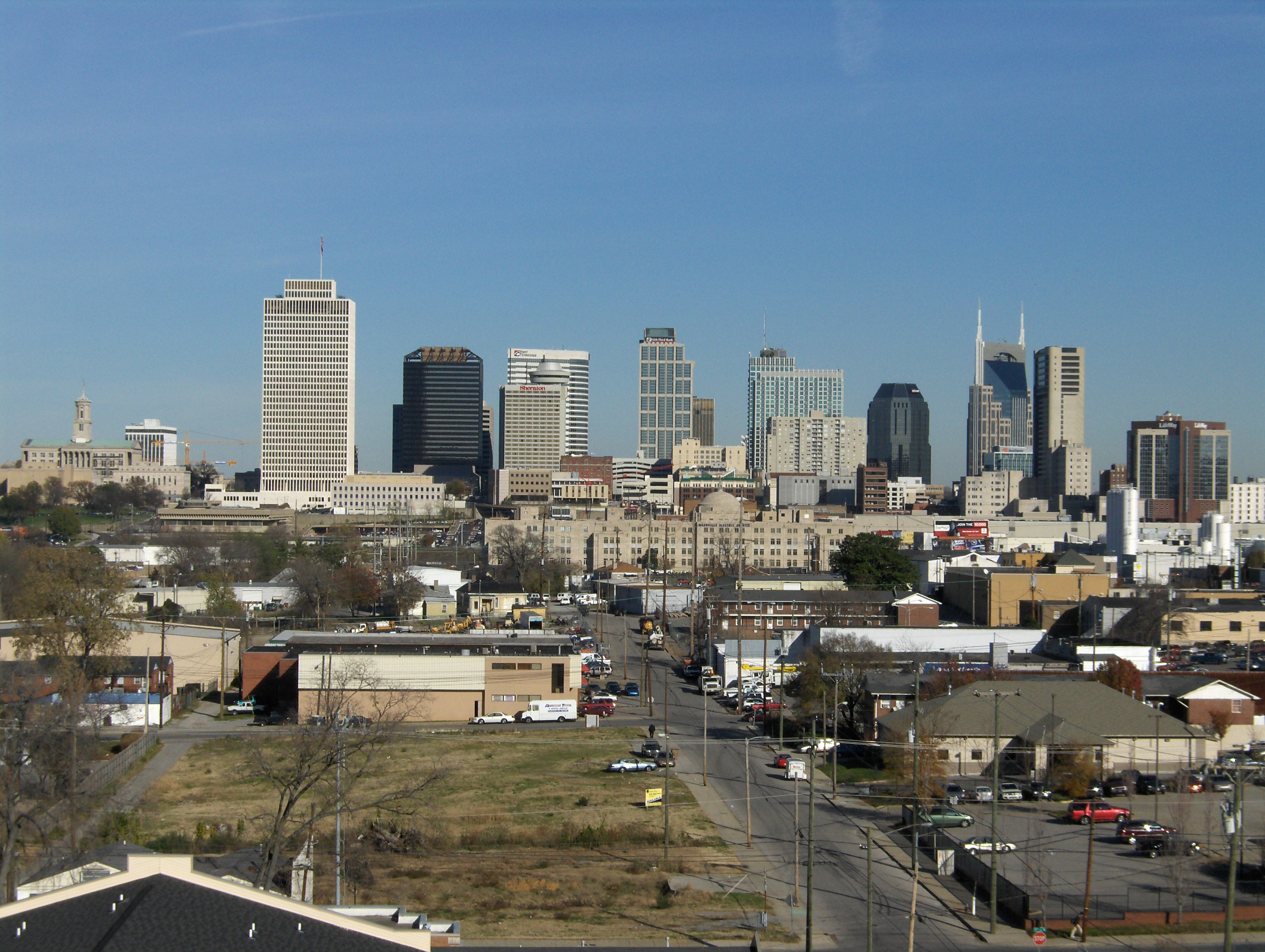 Skyline of Nashville, Tennessee.